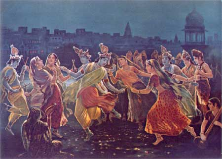 Krishna, Radha and friends playing Rasaleela on the banks of Jamuna River.